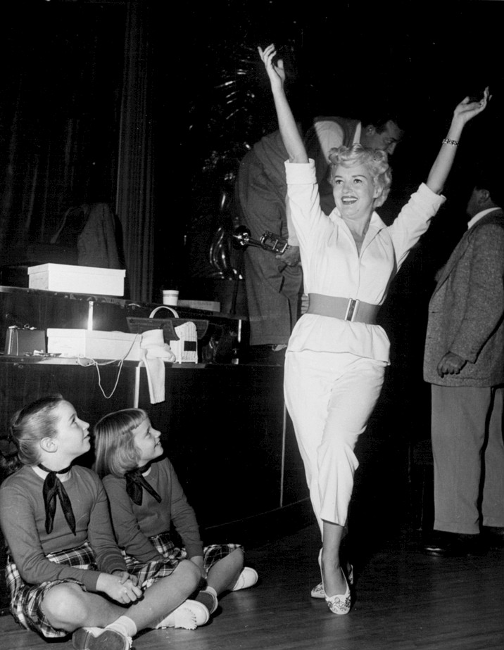 Betty Grable's daughters Victoria and Elizabeth watch as their mother rehearses for the premiere of the television program A Shower of Stars. This was also Grable's first time on television.